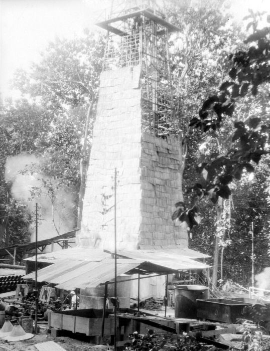 Oil derrick, Cepu